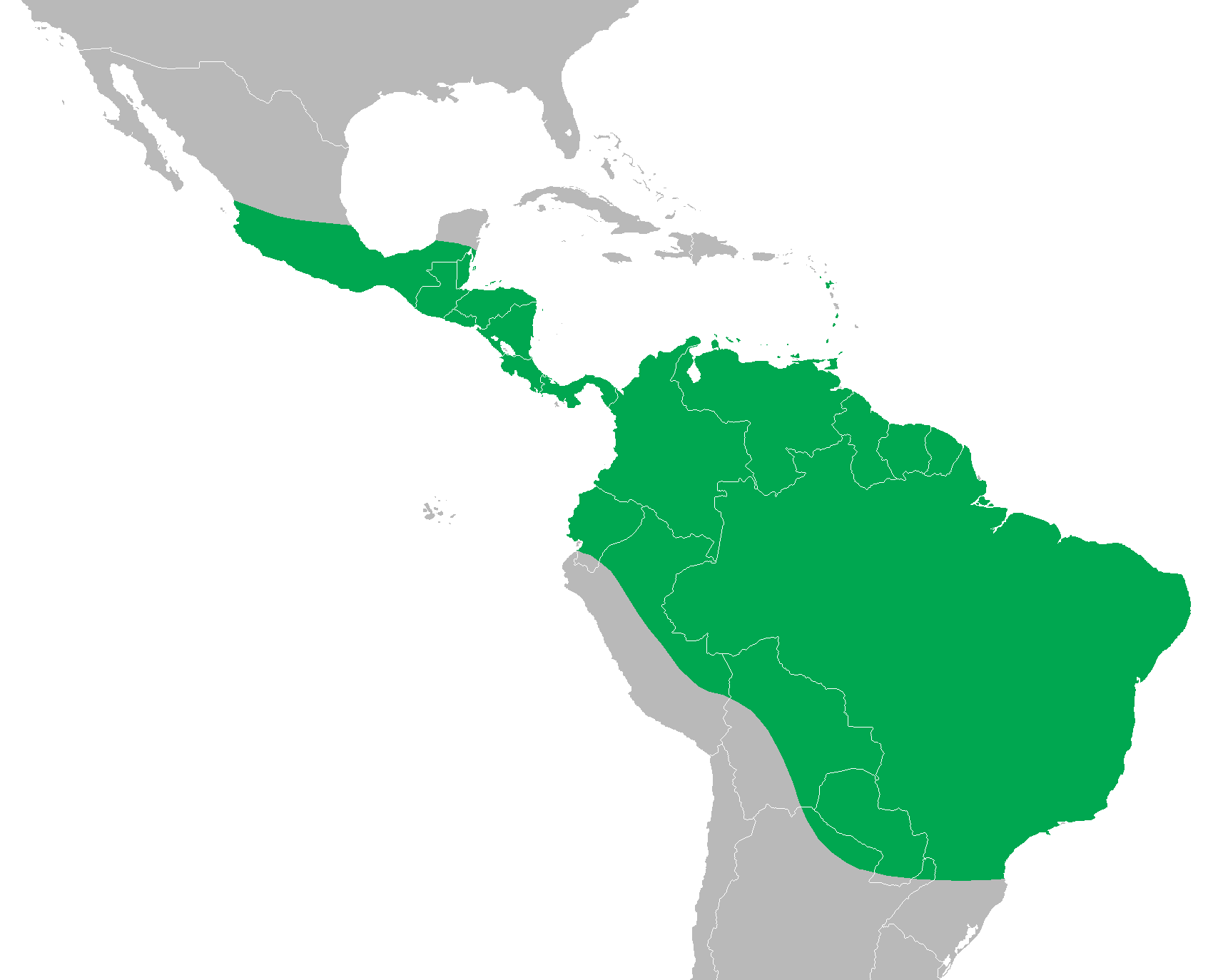 Distribution map of Iguana iguana — the Green iguana.